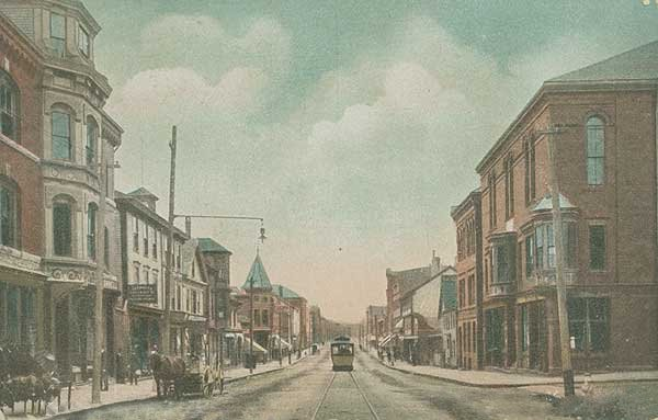 A postcard of downtown Yarmouth, Nova Scotia looking north.